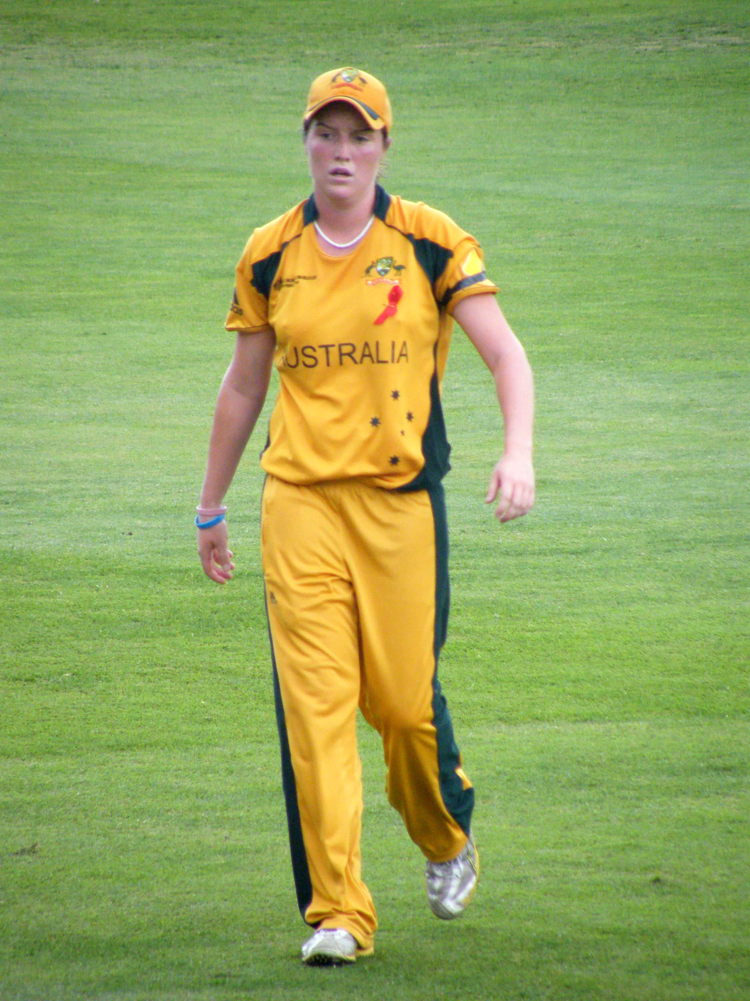 Rene Farrell during the 2009 Women's Cricket World Cup